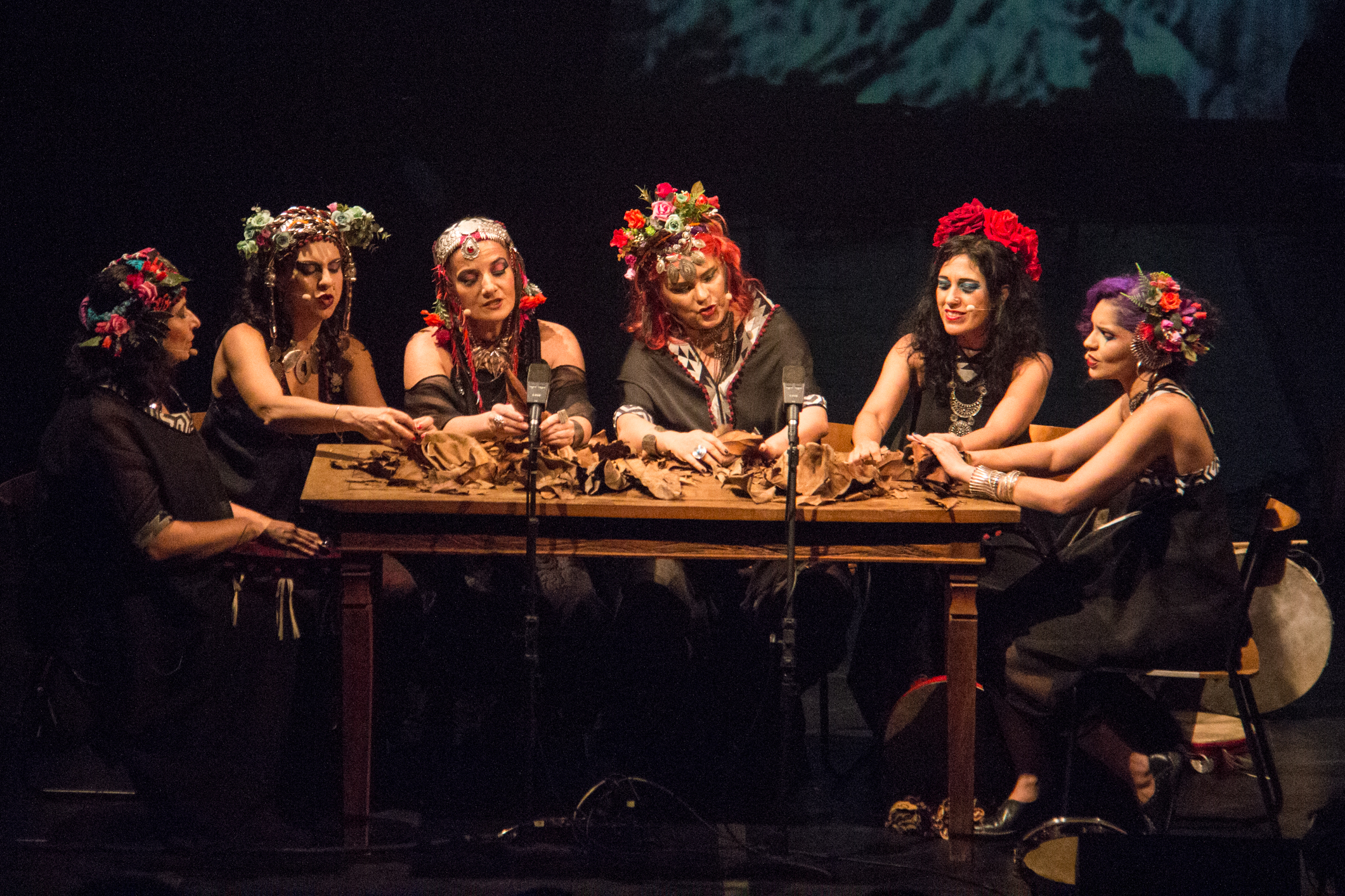 Image of the band Mawaca presenting the song "Panadeiras" in the launch performance of the show Nama Pariret